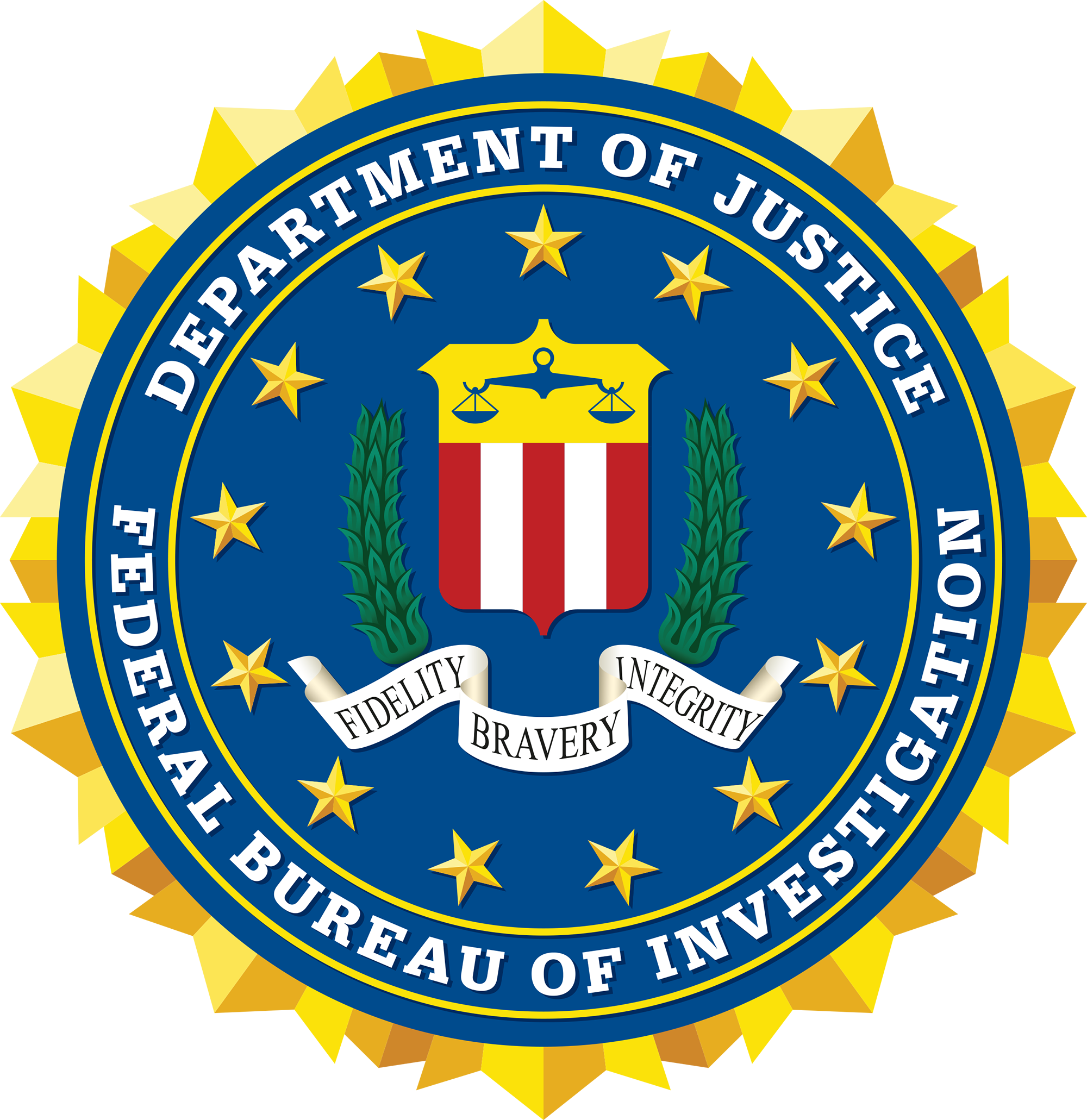 FBI logo.